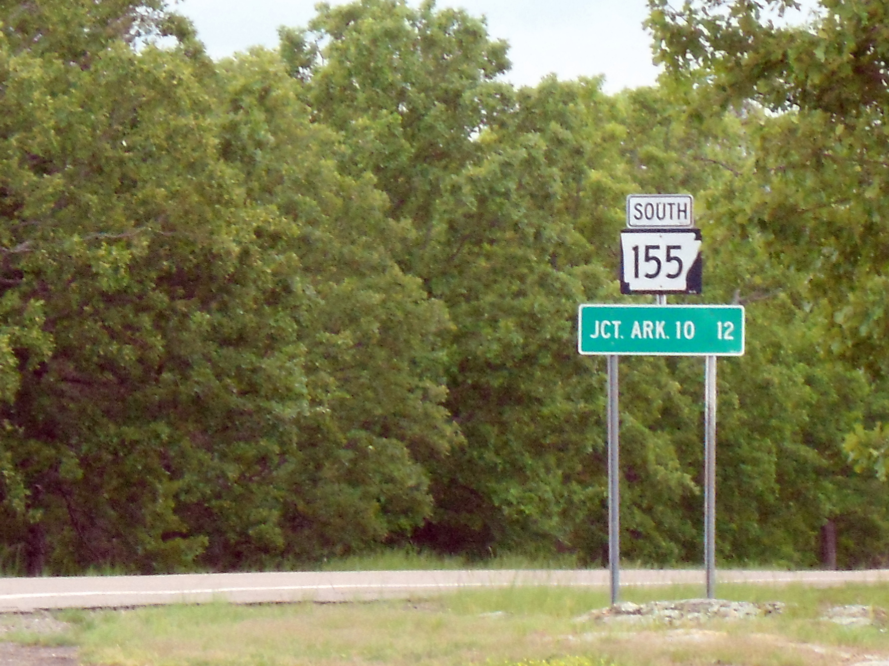 Highway 155 at the entrance to Petit Jean State Park